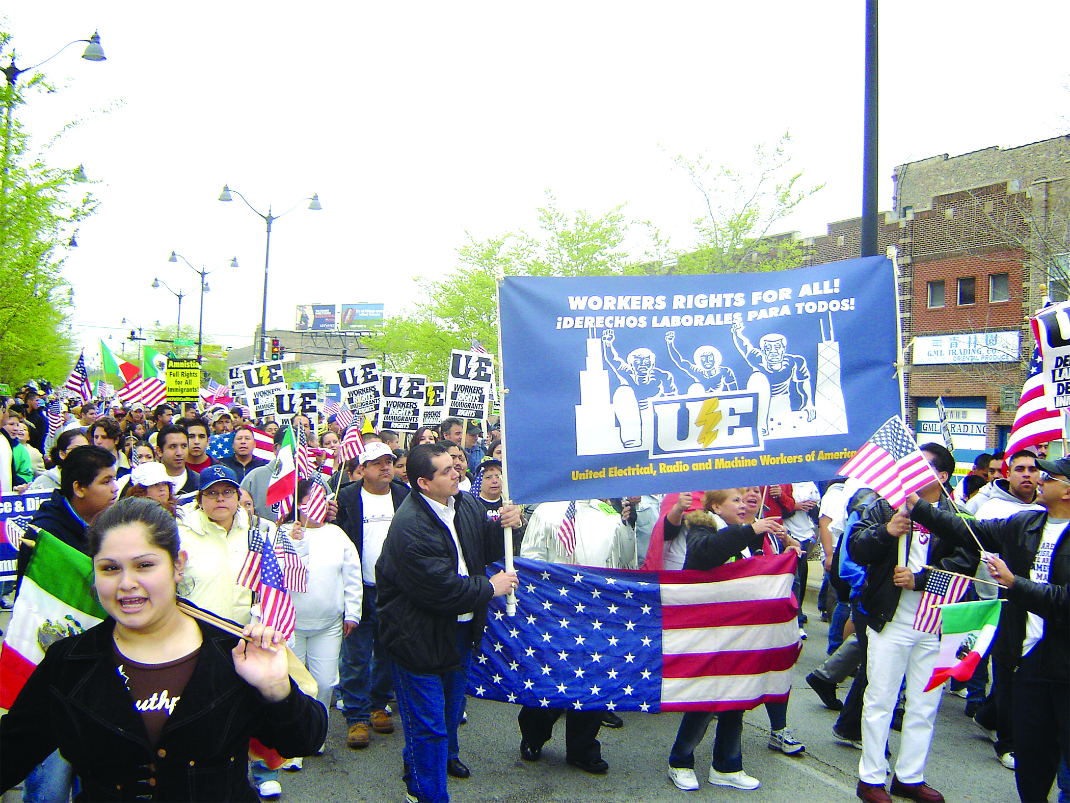 Chicago May Day march, 2006